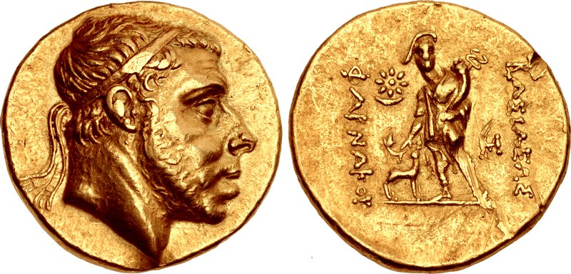 Coin of Pharnaces I of Pontus, Amisos mint.